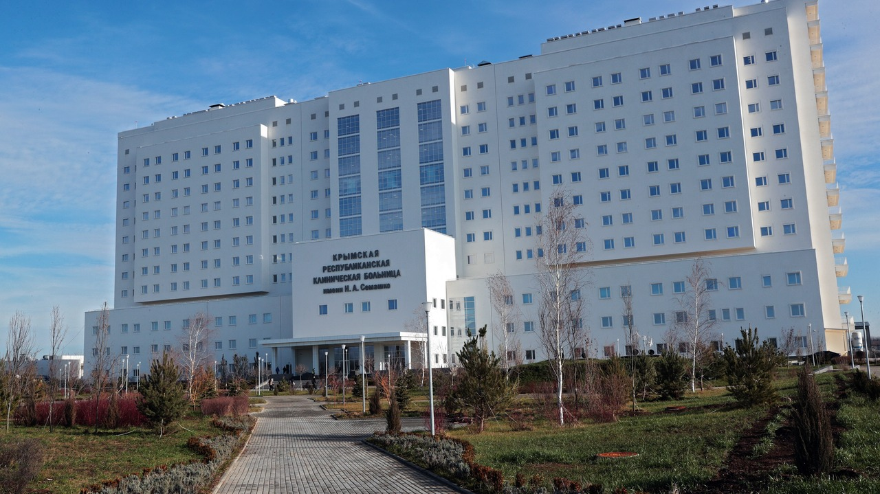 Republican hospital named after Semashko